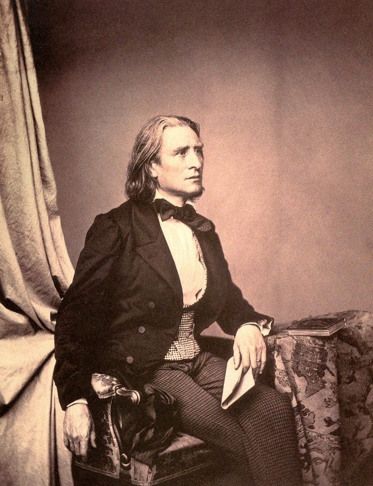 Composer and pianist Franz Liszt